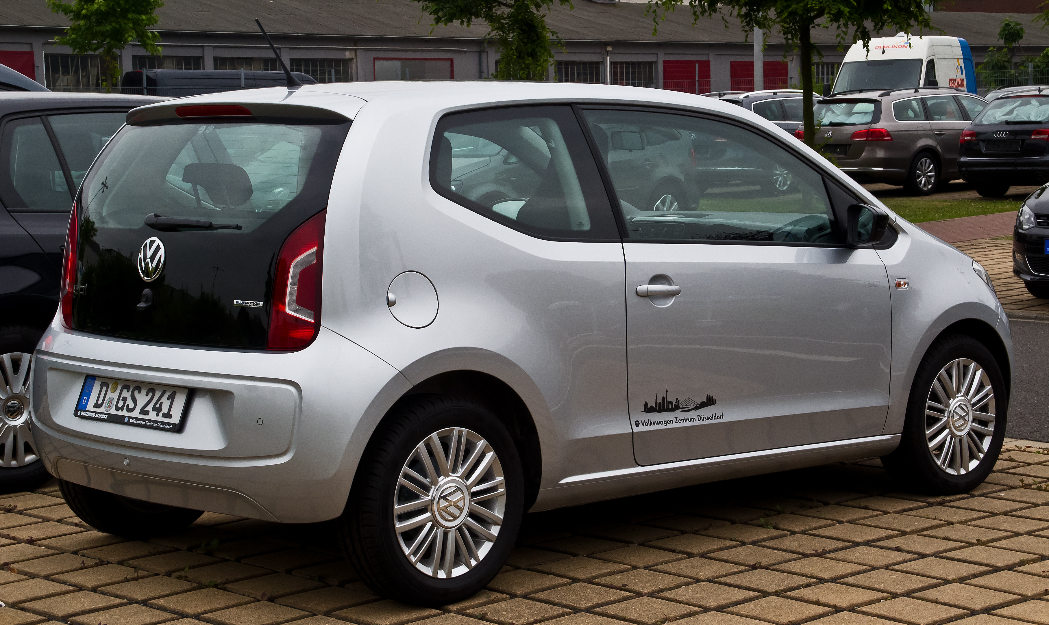 VW cup up! 1.0 BlueMotion Technology